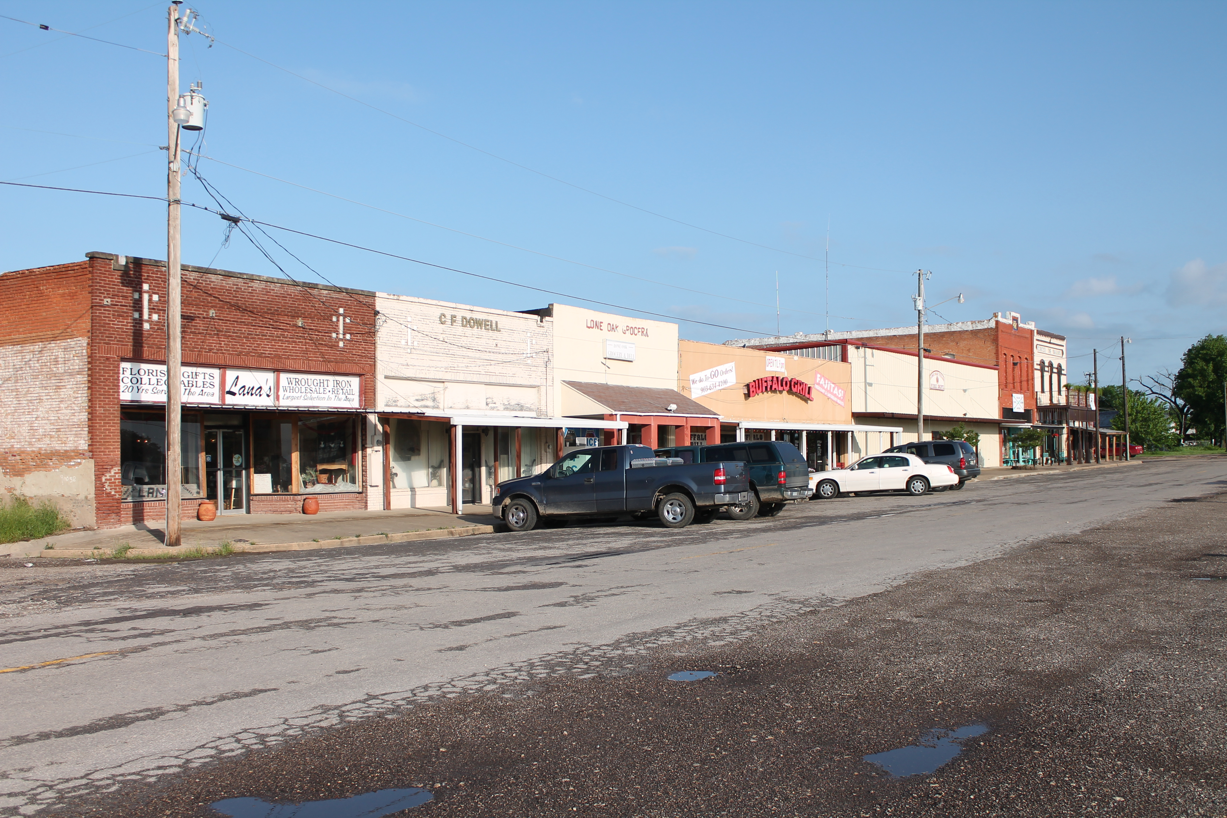 The town of Lone Oak, Texas